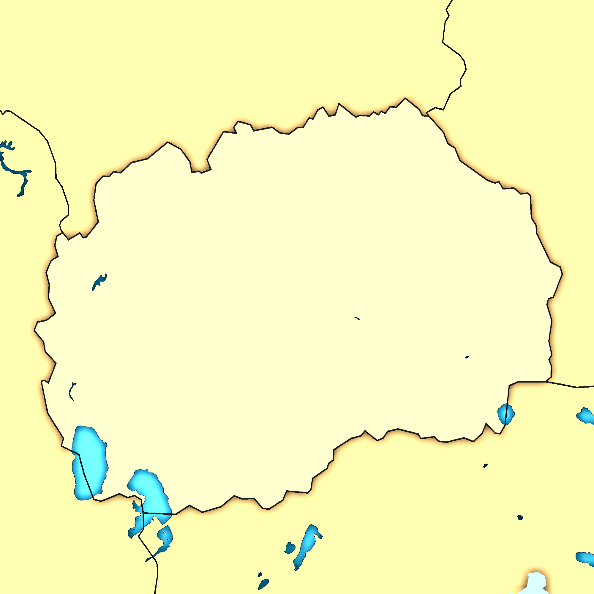 A blank map of Macedonia (modern style) with most important topographic features (lakes, rivers)